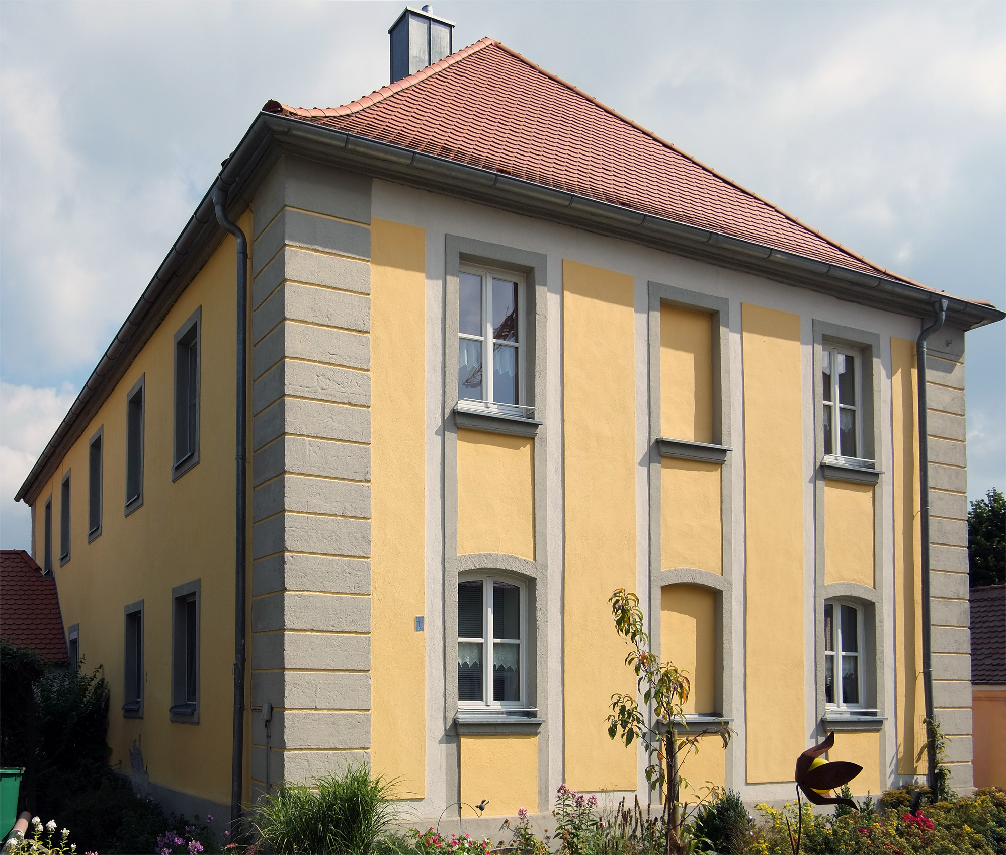 This is a photograph of an architectural monument.